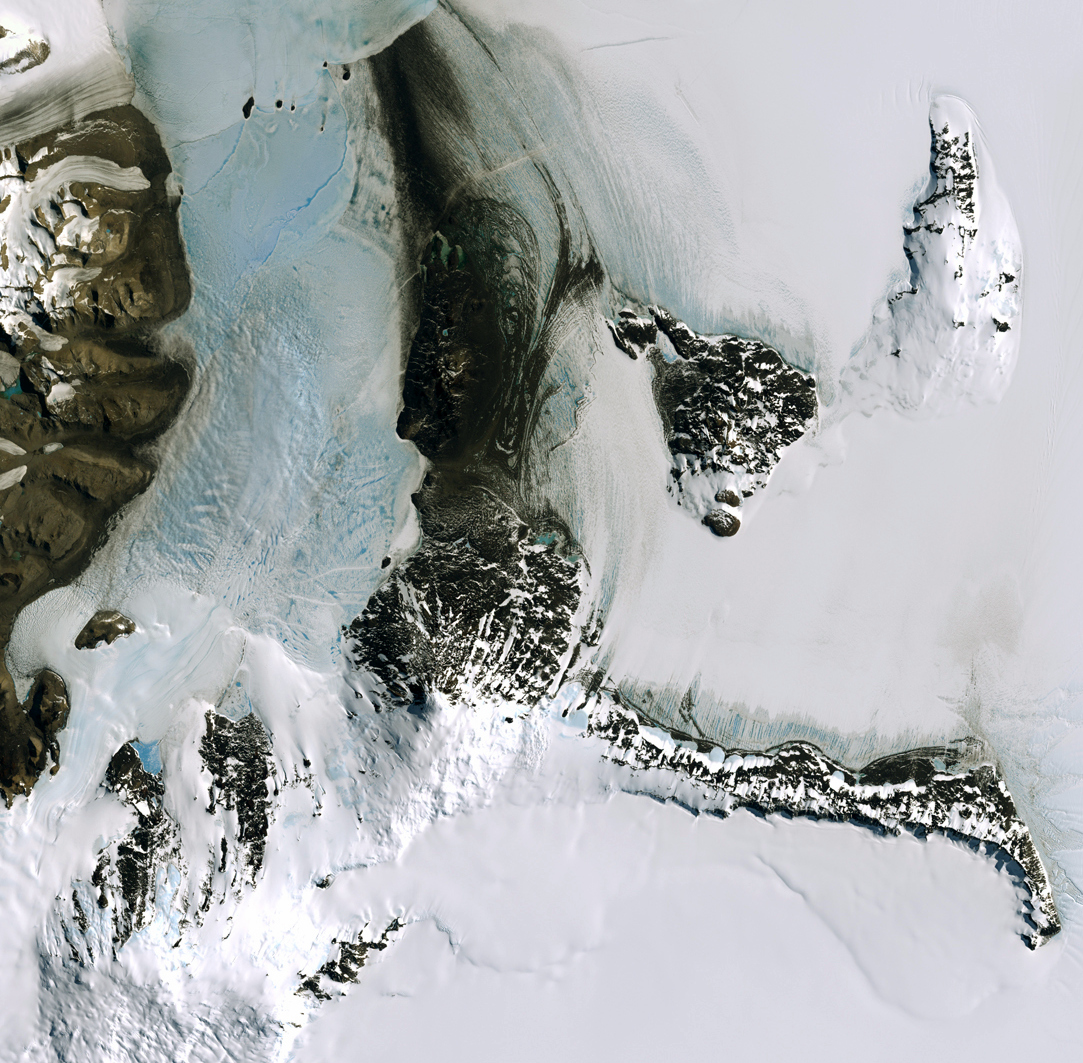 Koettlitz Glacier, Minna Bluff, Black Island & White Island